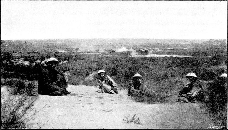 Charles-Eudes Bonin photography of Gengis Khan Mosoleum in Ordos area in 1897.